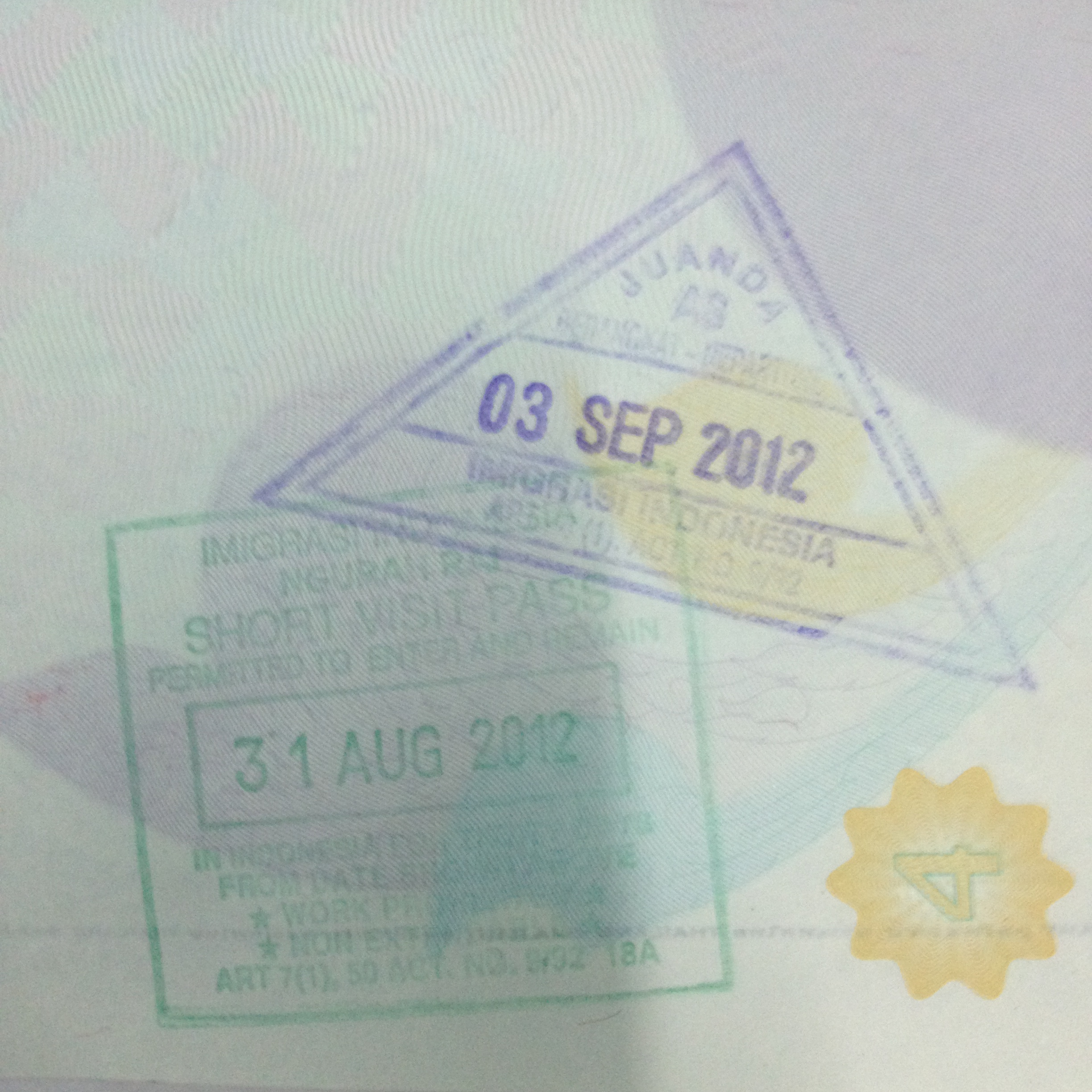 Entry and exit stamps at Ngurah Rai International Airport and Juanda International Airport.